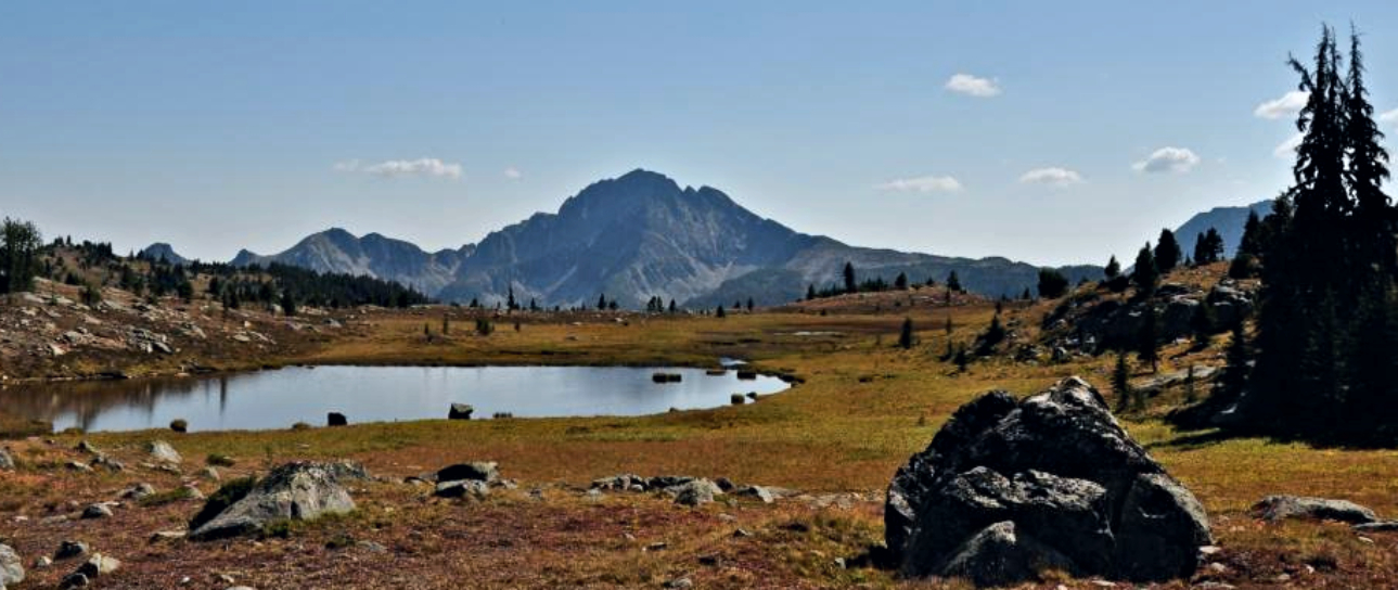 Distant view of Mount Remmel